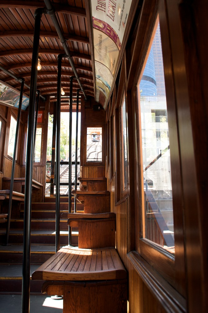 Interior of the renovated Angels Flight car. Note the peculiarity of the interior staircase.